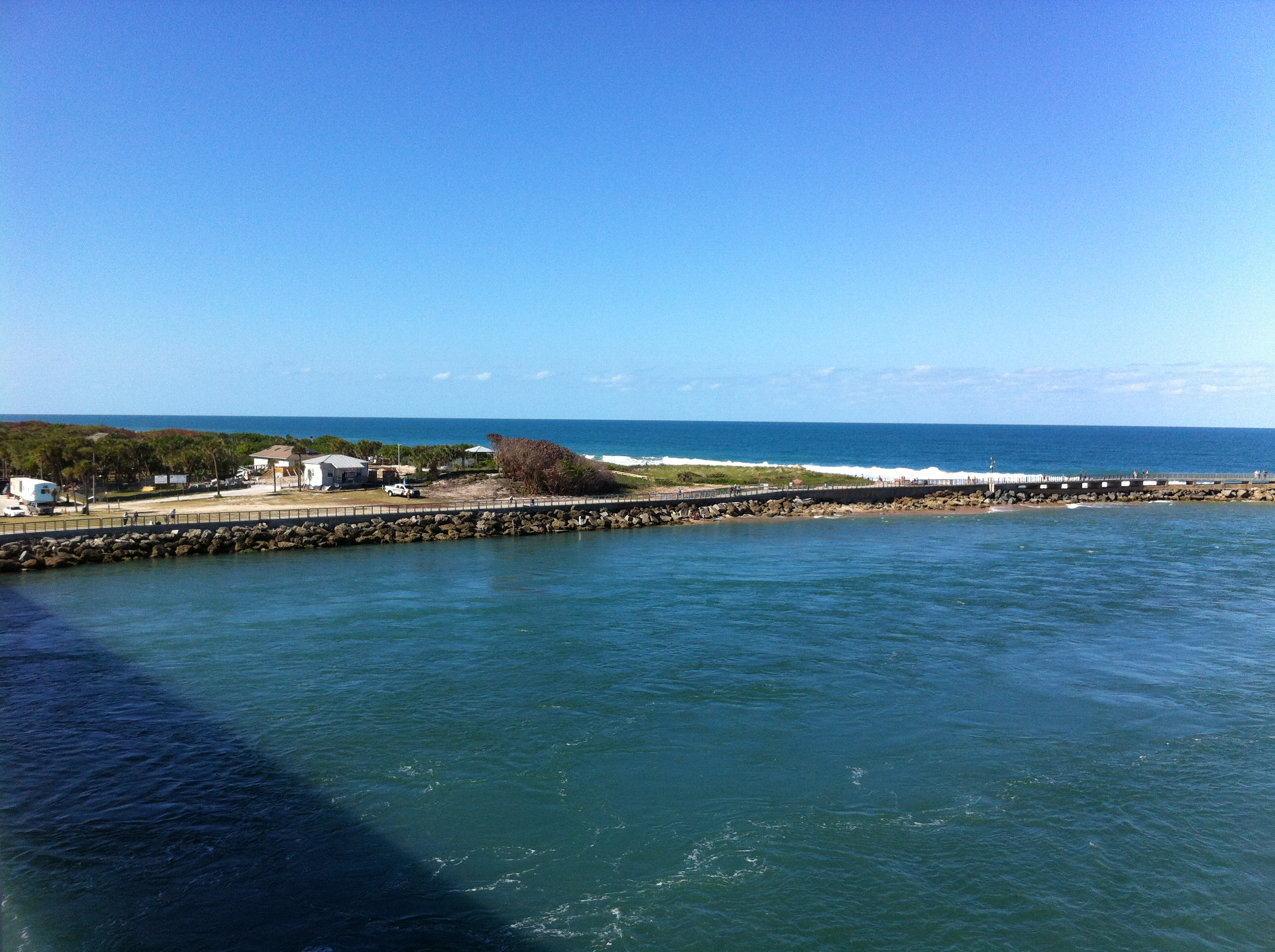 Sebastian Inlet, Florida. The begining of the North Jetty is shown on the right. Photograph taken from the Sebastian Inlet Bridge on Florida State Highway A1A.